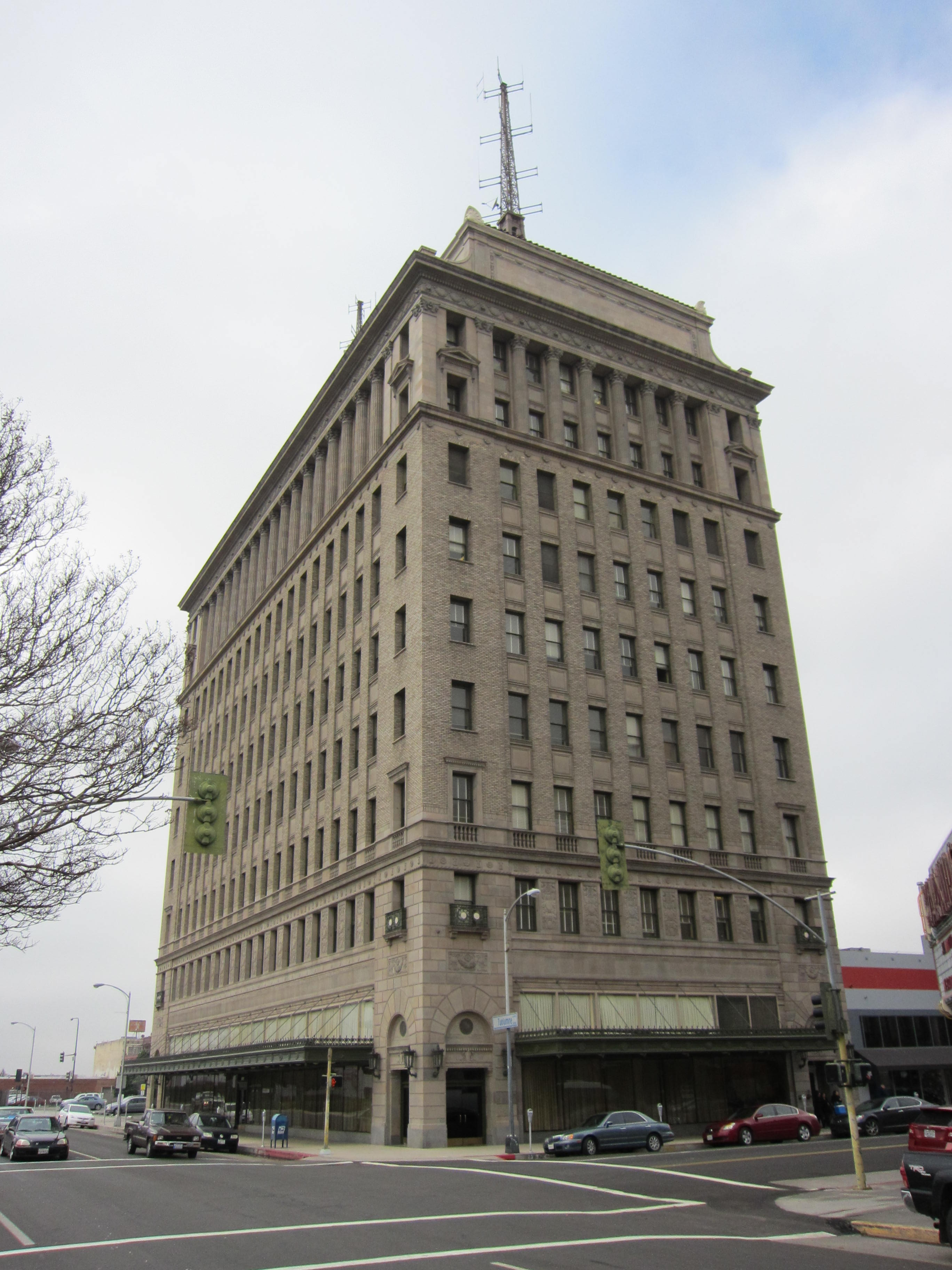 San Joaquin Light and Power Corporation Building, 1401 Fulton Street, Fresno, California.